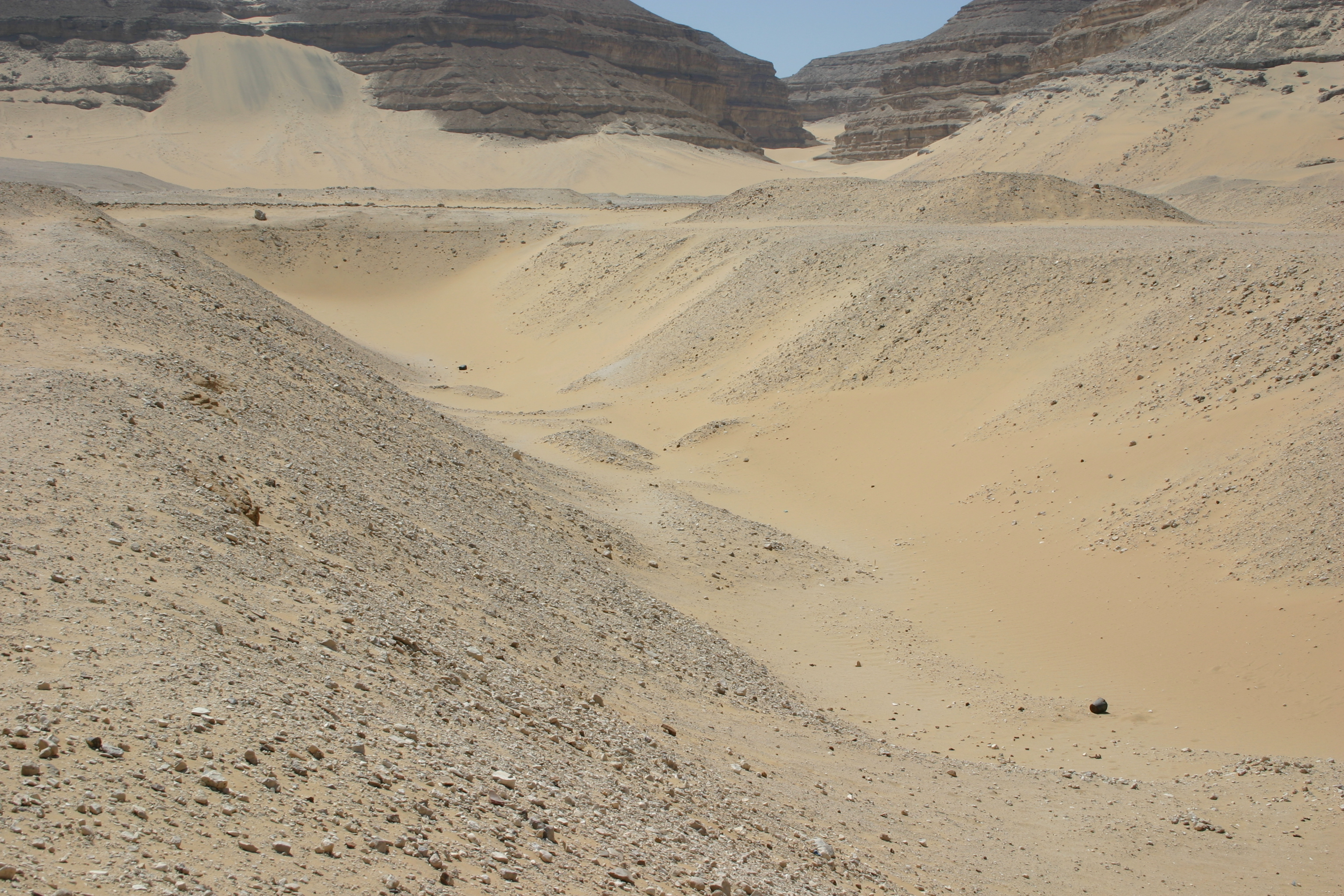 The remains of the second dynasty pharaoh Khasekhemwy's tomb at Umm el-Qa'ab in 2005. Khasekhemwy was the final king of the second dynasty of Egypt and many Egytologists today agree that he was the father of Djoser, the most powerful king of the third dynasty of Egypt.